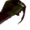 This is a digitally modified version of part of a photograph I took earlier. It shows one chelicera of a spider and how the fang portion folds back toward the base of the chelicera like the blade of a pocket knife folding into its handle.